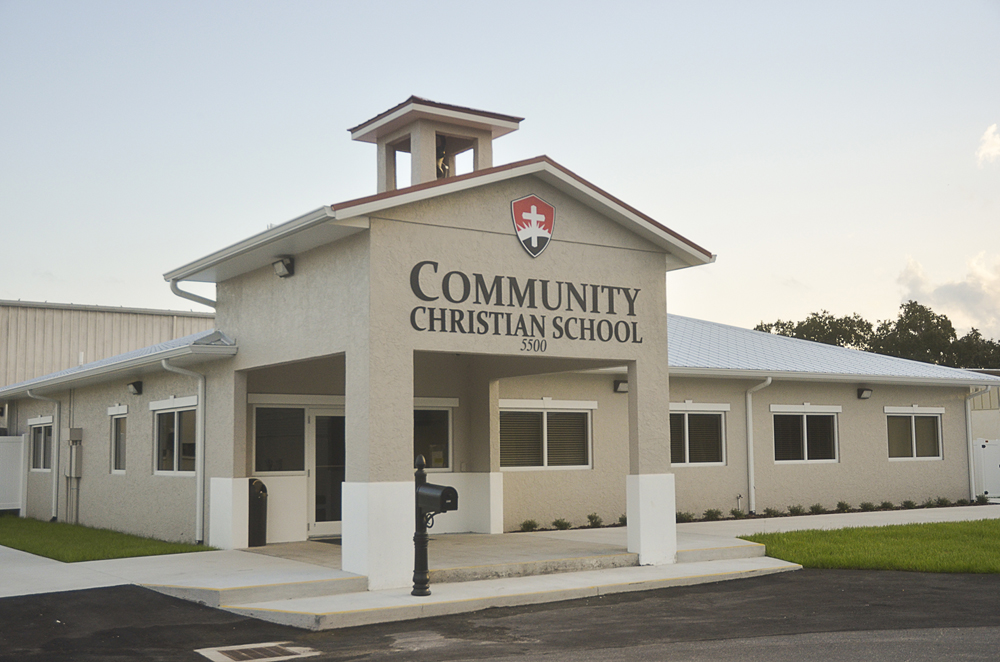 CCS's new administrative building is the heart of campus operation.